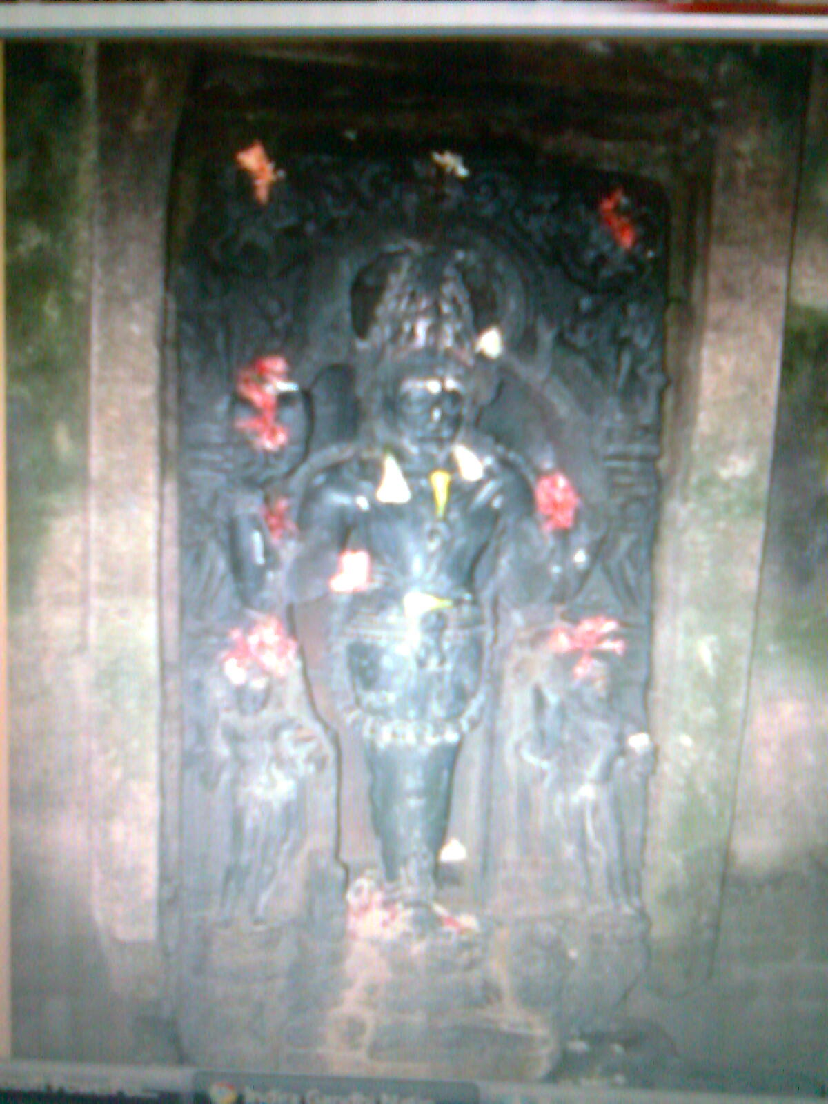 photo of ajaikapada bhairava